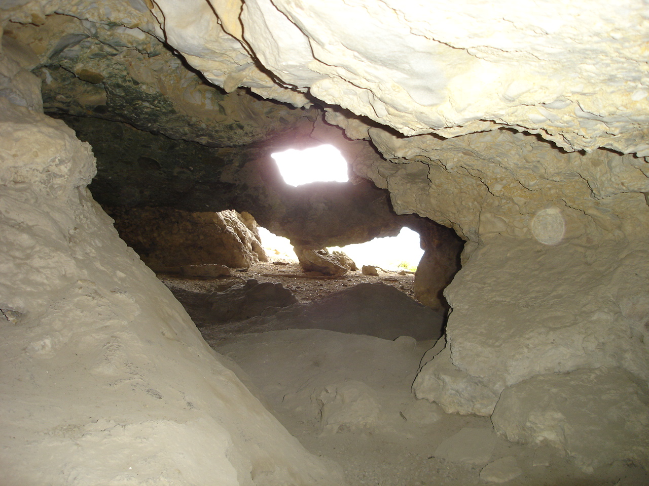 Melnička Cave in the region of Mariovo, Macedonia